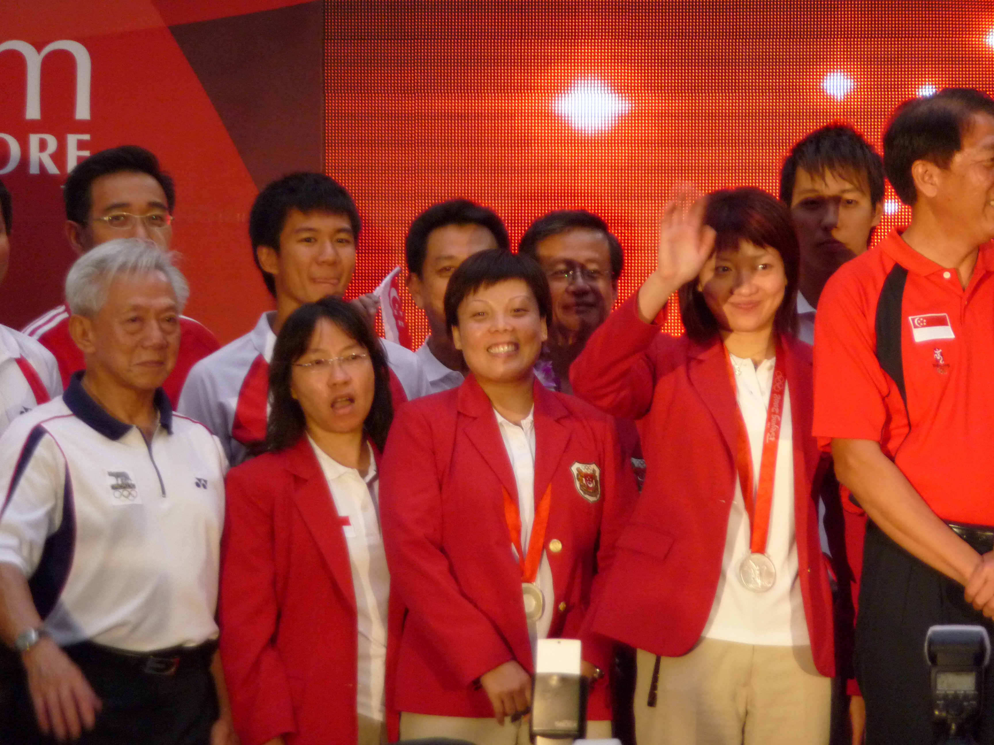 Team Singapore at a ceremony to welcome them home from the 2008 Summer Olympics in Beijing. On the extreme left is former weightlifter Tan Howe Liang, who won Singapore's first Olympic medal at the 1960 Summer Olympics in Rome. In the centre of the picture are Singapore Women's table tennis team members Wang Yuegu and Li Jiawei.